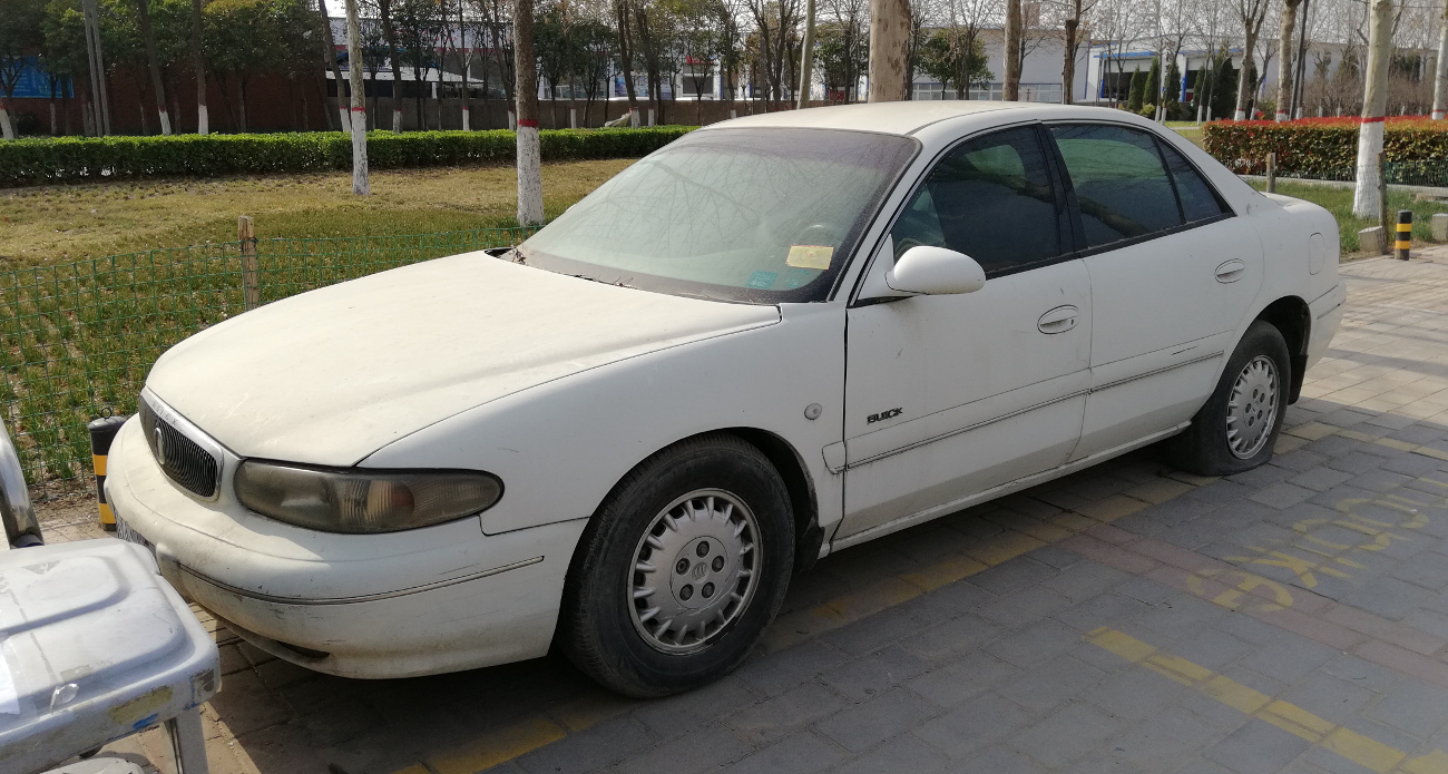 Buick "New Century" GL photographed in Zhengzhou, Henan province, China.